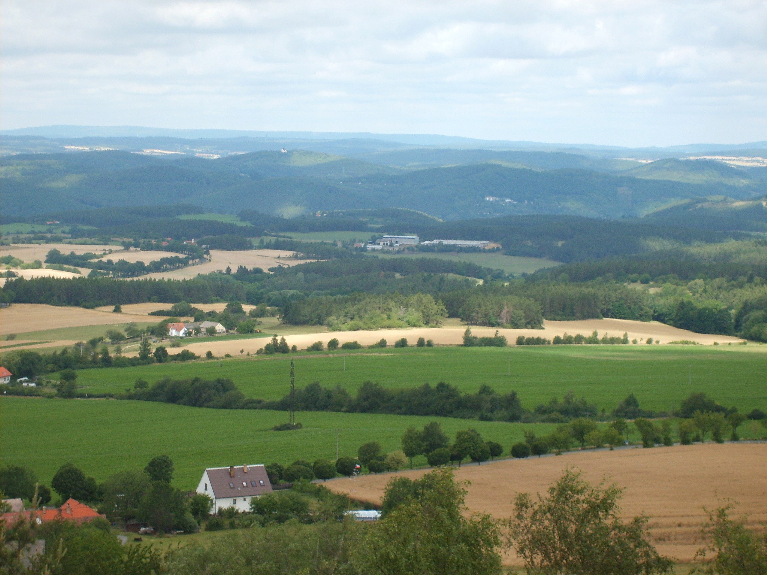 View from Onen svět tower to church on Maková hora and Příbram district landscape